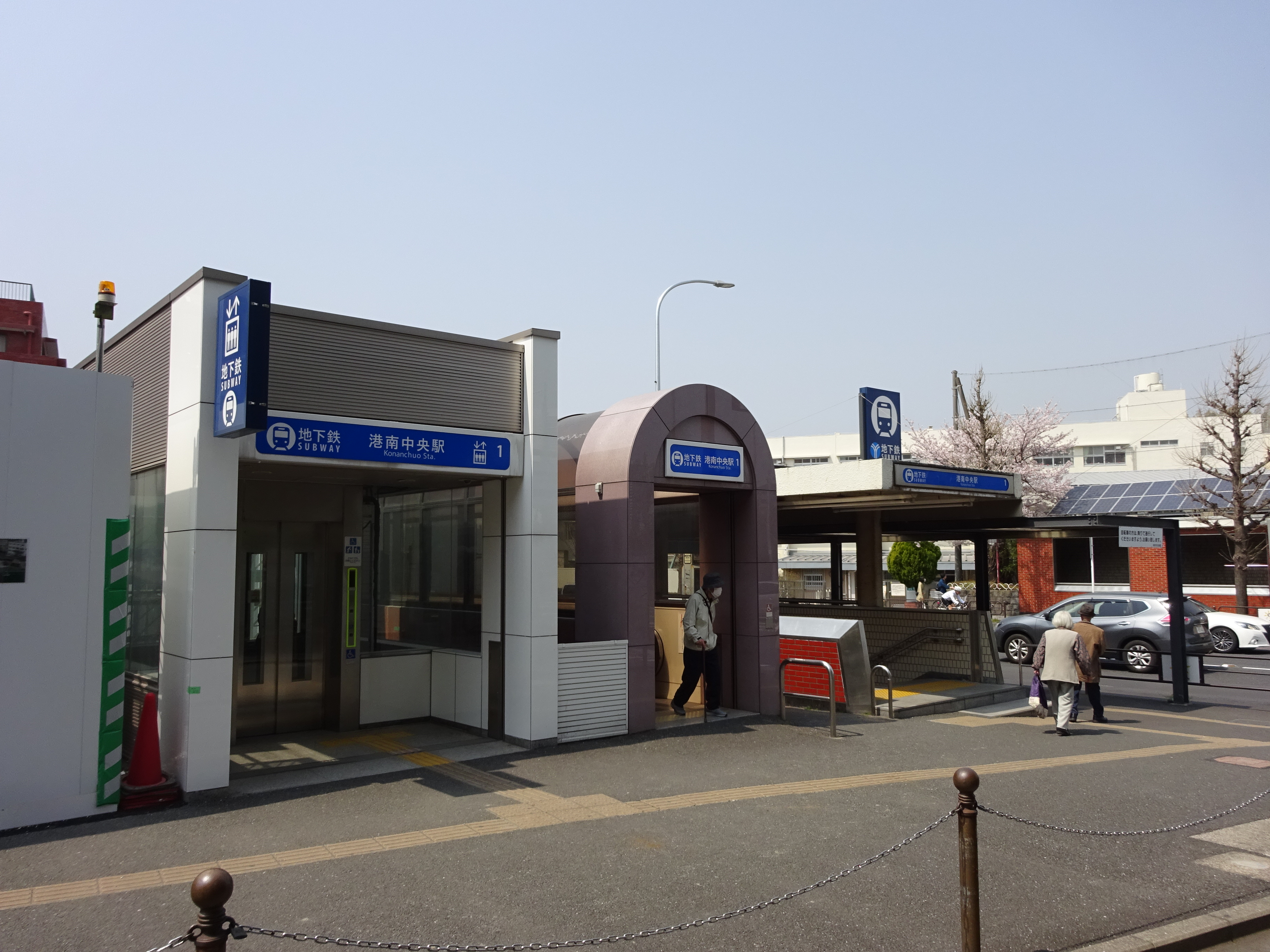 Kōnan-Chūō Station Exit No. 1